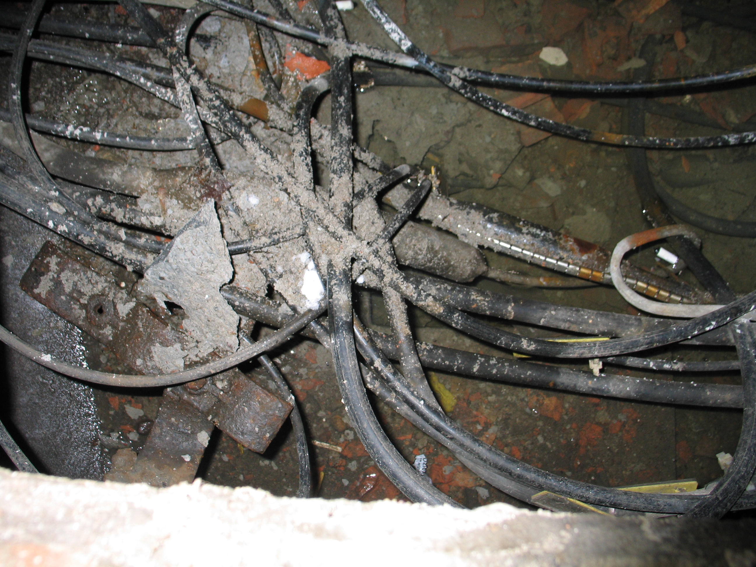 telecommunication access chamber, Kościuszki Street, Włocławek, Poland